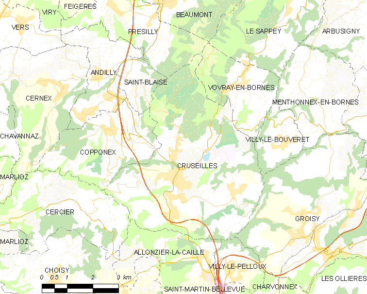 Map of French municipality Cruseilles